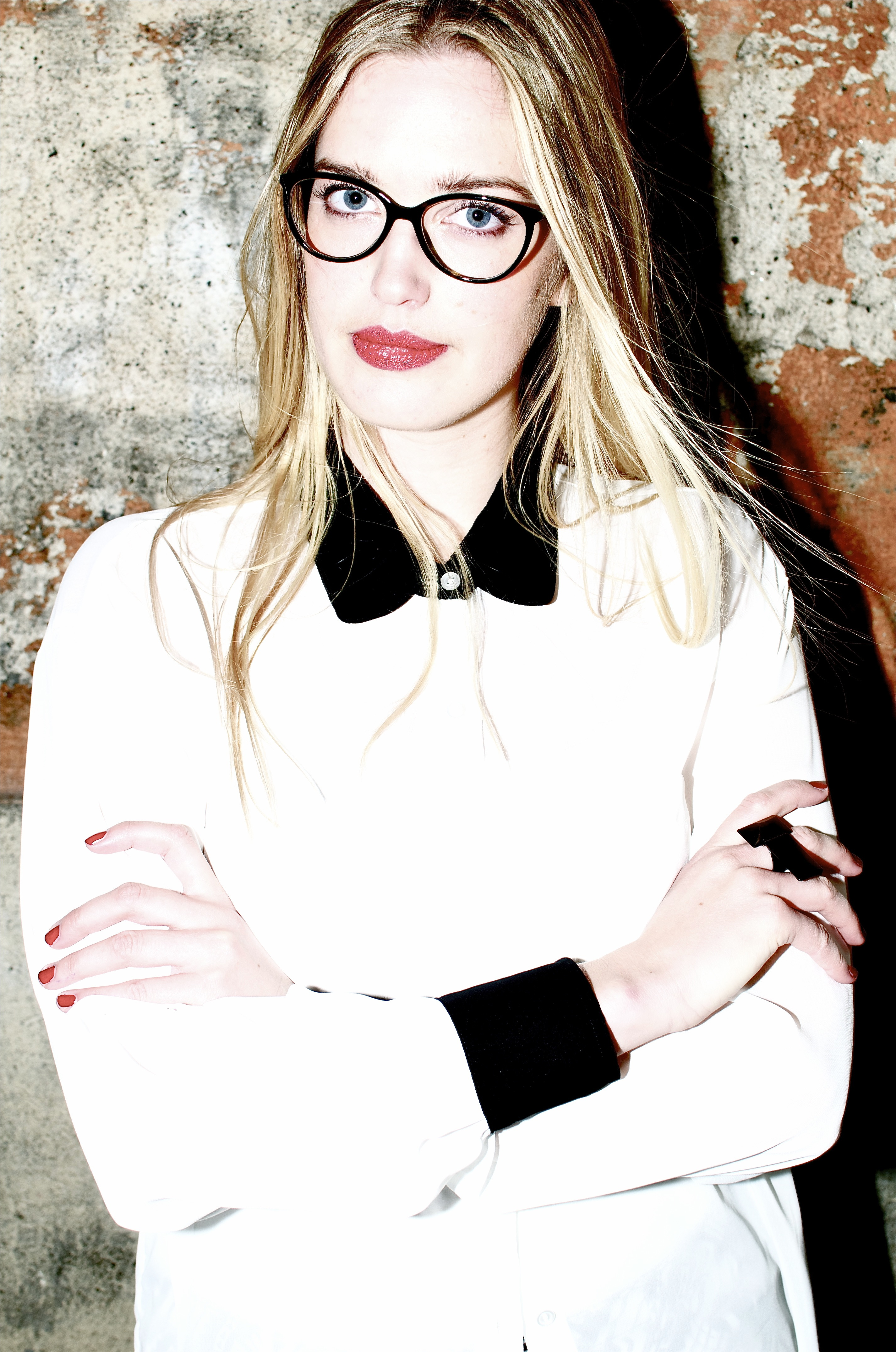 Linda Nordlund. Foto: Clara Uddman.